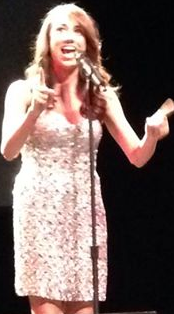 Colleen Ballinger, singing in New York City in July 2014 at the beginning of a Miranda Sings concert.